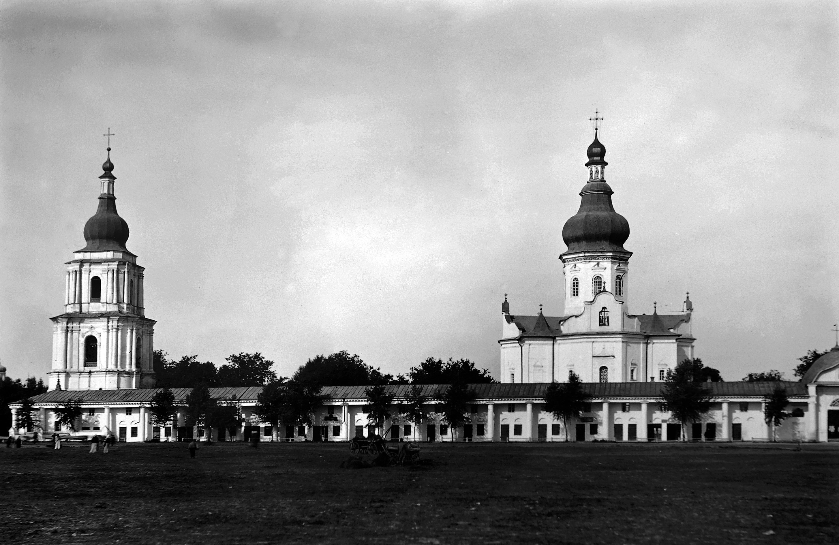 Ascension temple complex in Pereiaslav. Photo late 19th century.